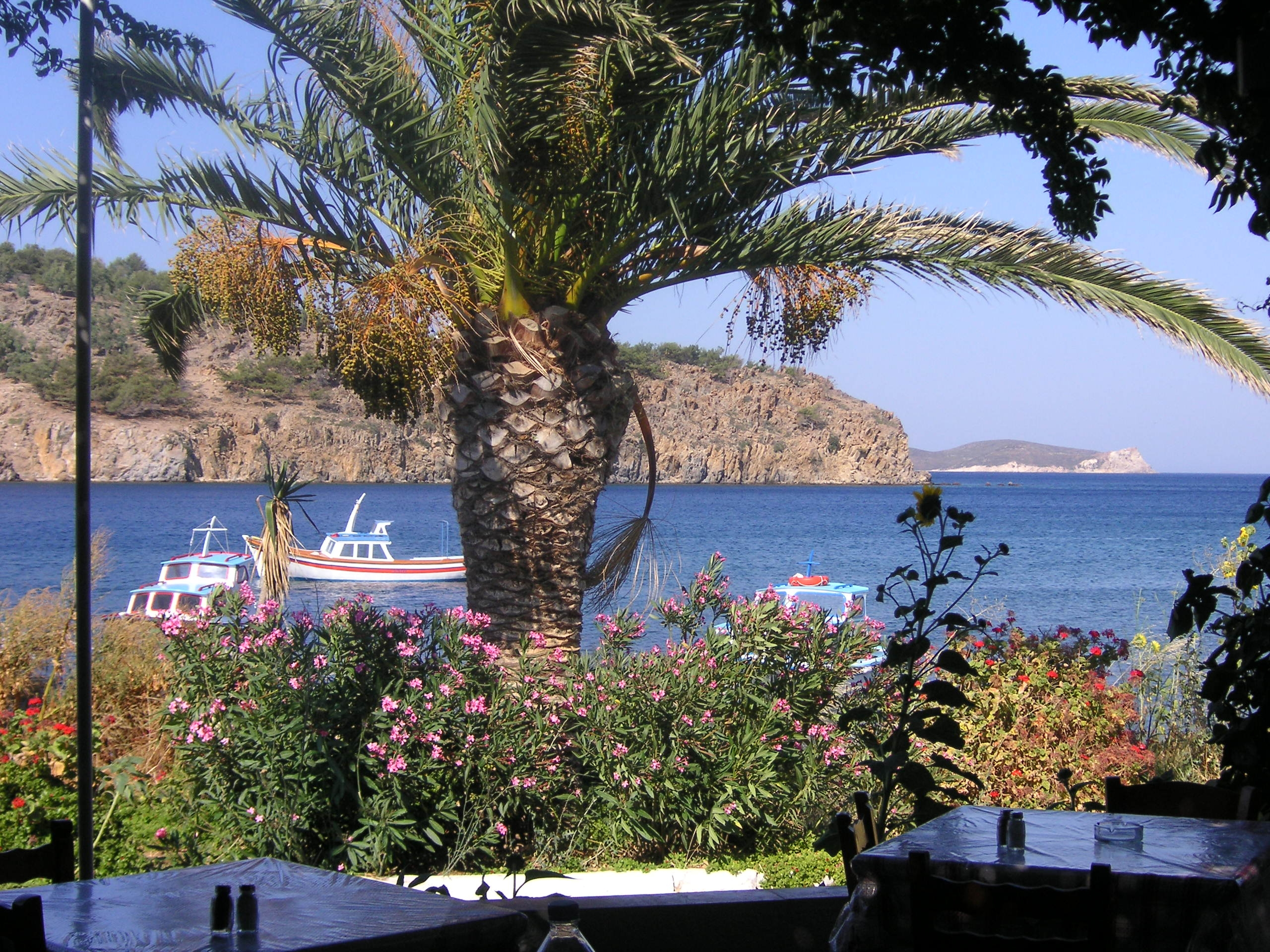 The beach at Meloi, Patmos, Greece.